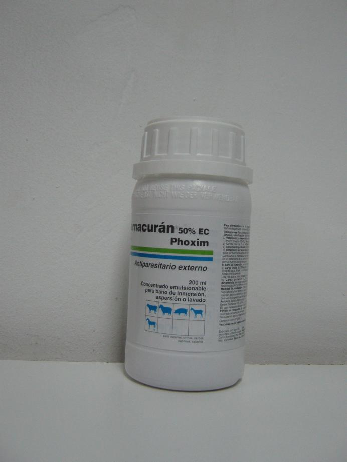 foxim